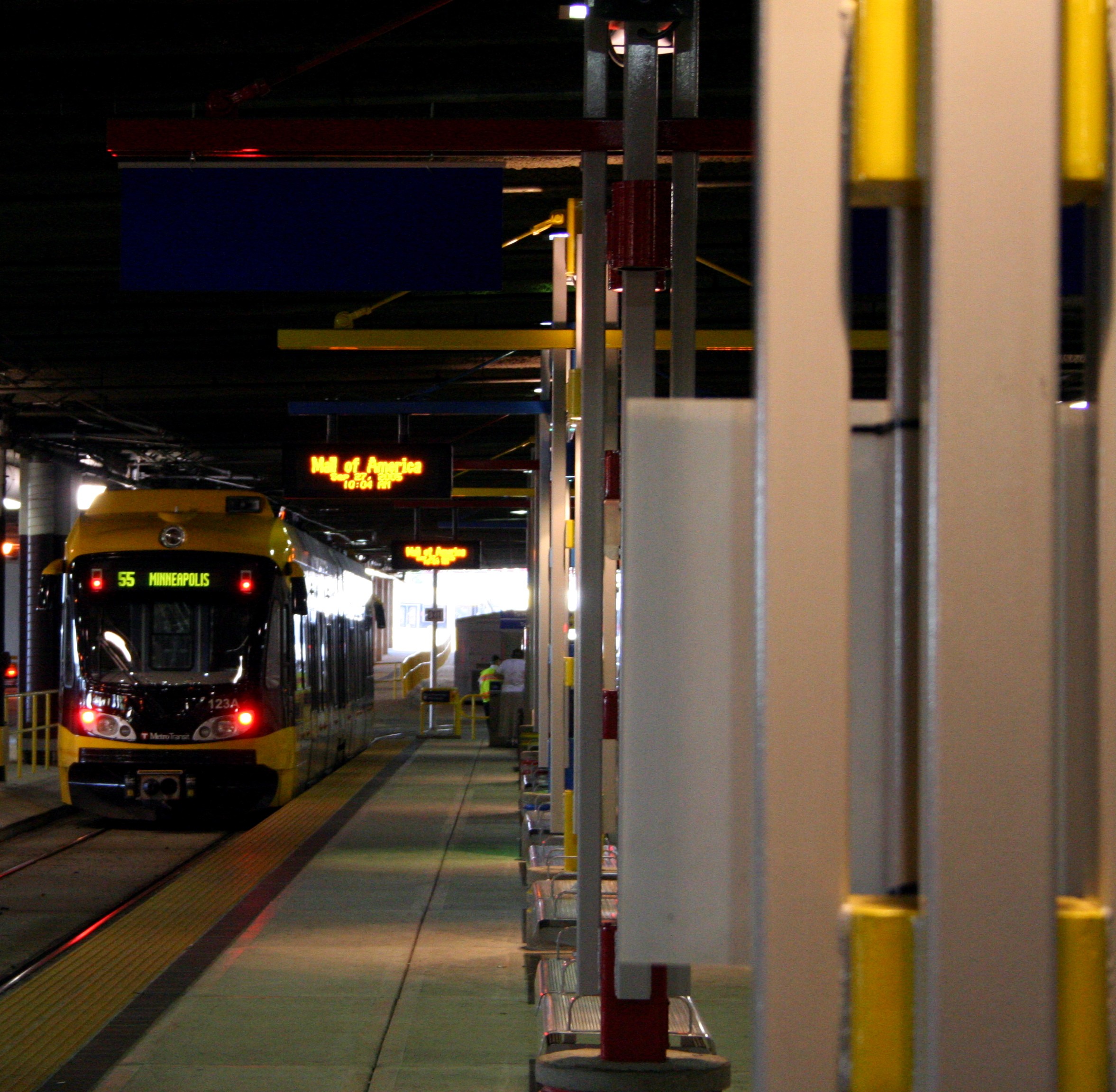 Lightrail Hiawatha Line at the mall of america